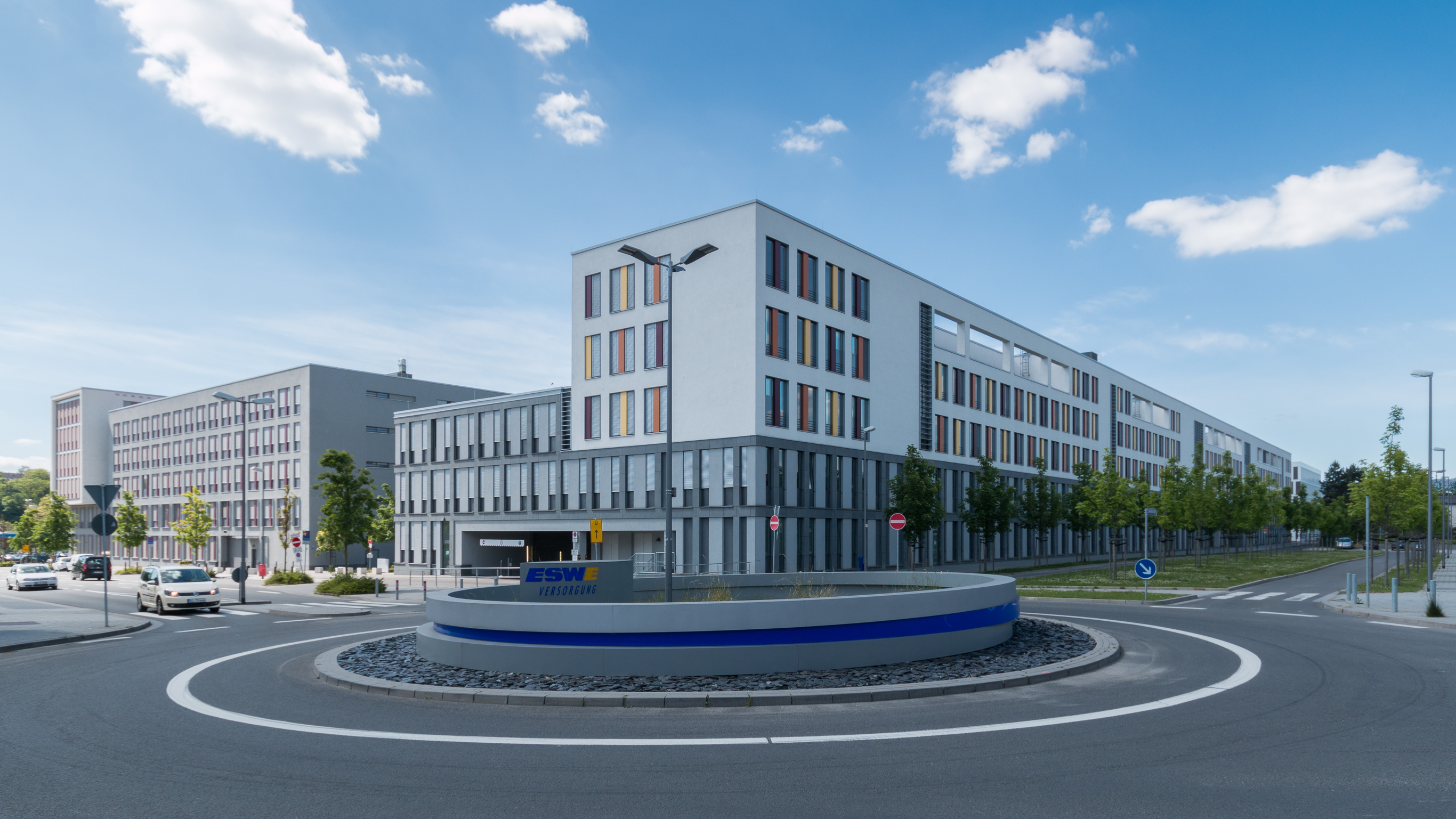 The Judiciary Center in Wiesbaden in der Mainzer Straße hosts several courts.